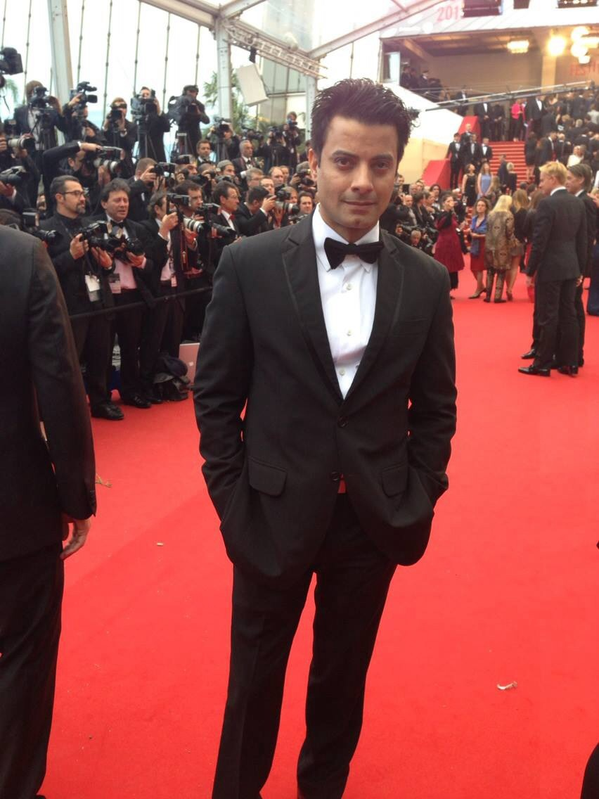 Rahul Bhat at the Cannes Film Festival